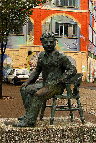 Maritime Quarter: Swansea. A statue of Dylan Thomas, outside the Dylan Thomas Theatre at the Marina, Swansea.